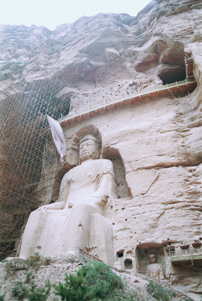 Giant Maitreya Buddha, Bingling Temple, Gansu, China Photo by Christopher M. Cline